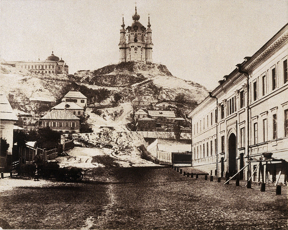 Краєвид Андріївської церкви у Києві з Подолу. Оригінальний підпис: "Church at Kief, Snow Drifts on the Ground" Date: 26/05/05 Colour Profile: Adobe RGB (1998) Gamma Setting: 2.2 Please note: This image is not currently fully processed.